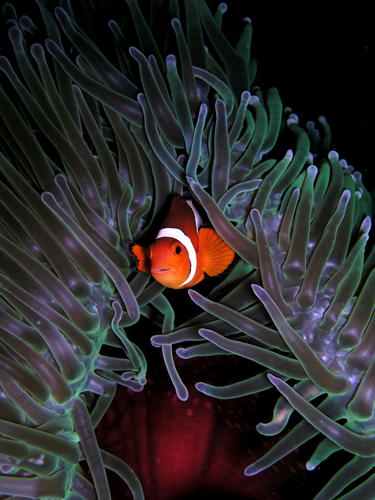 Amphiprion ocellaris (Clown anemonefish) in Heteractis magnifica (Sea anemone)